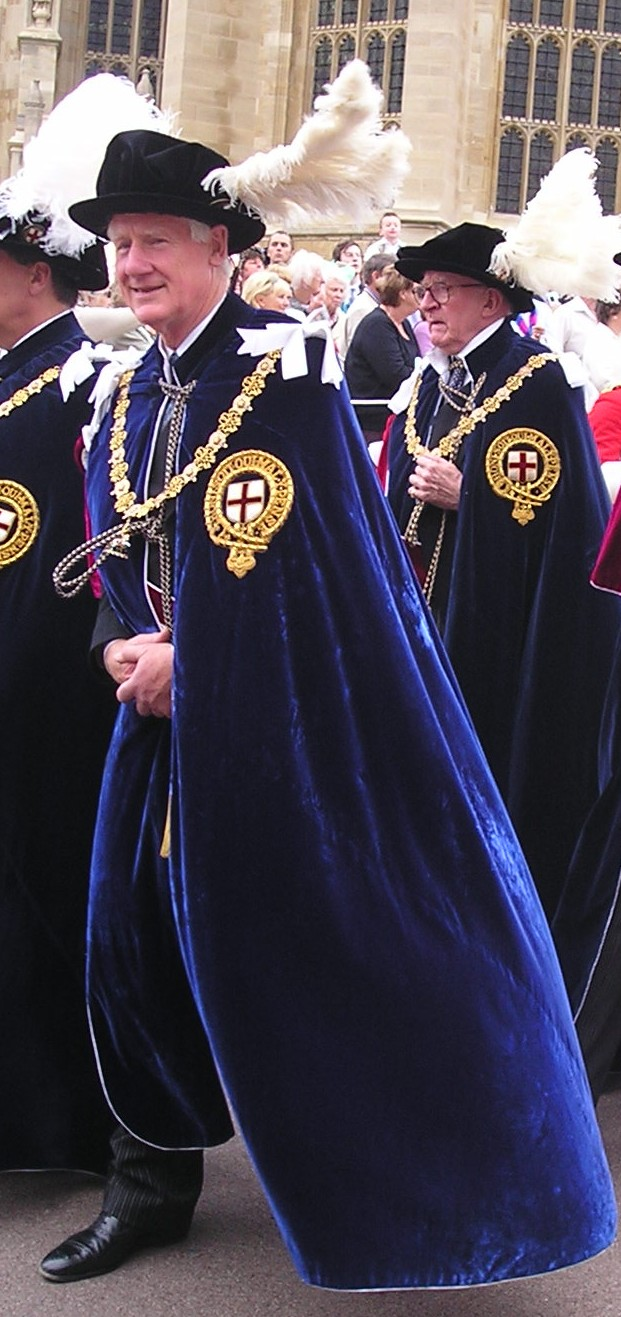 Lord Butler of Brockwell wearing his robes as a Knight Companion of the Order of the Garter, in procession to St George's Chapel, Windsor Castle for the annual service of the Order of the Garter. In the background is Lord Inge.